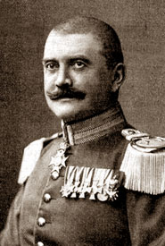 General Karl Eugen Horst Edler von der Planitz, (1859-1941)